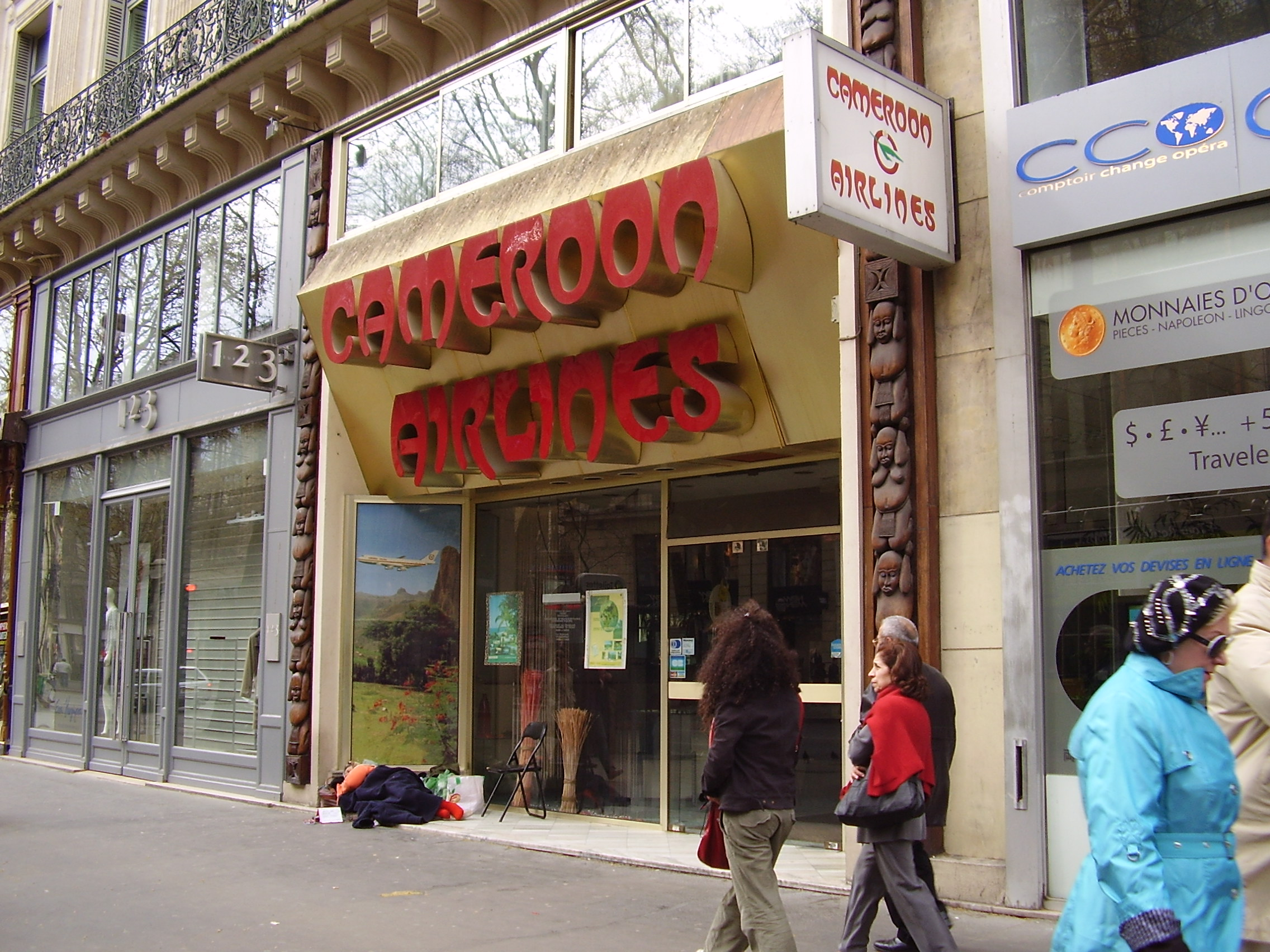 Cameroon Airlines office - 12, Boulevard des Capucines. 75009 Paris